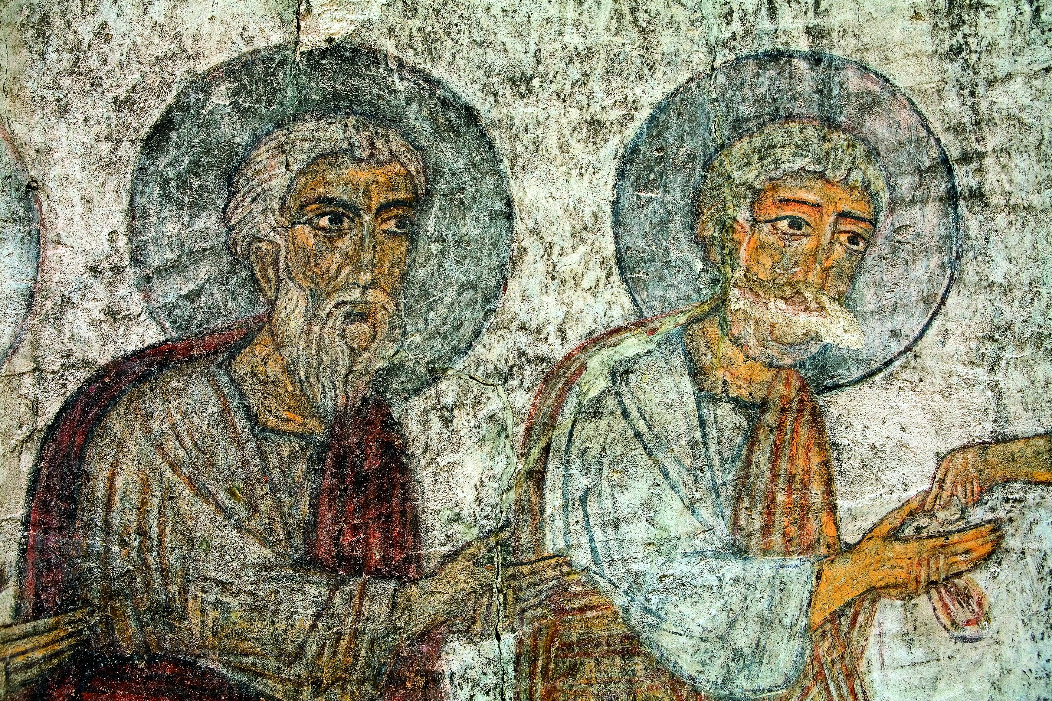 The Fresco in the Complex of Kobayr Monastery